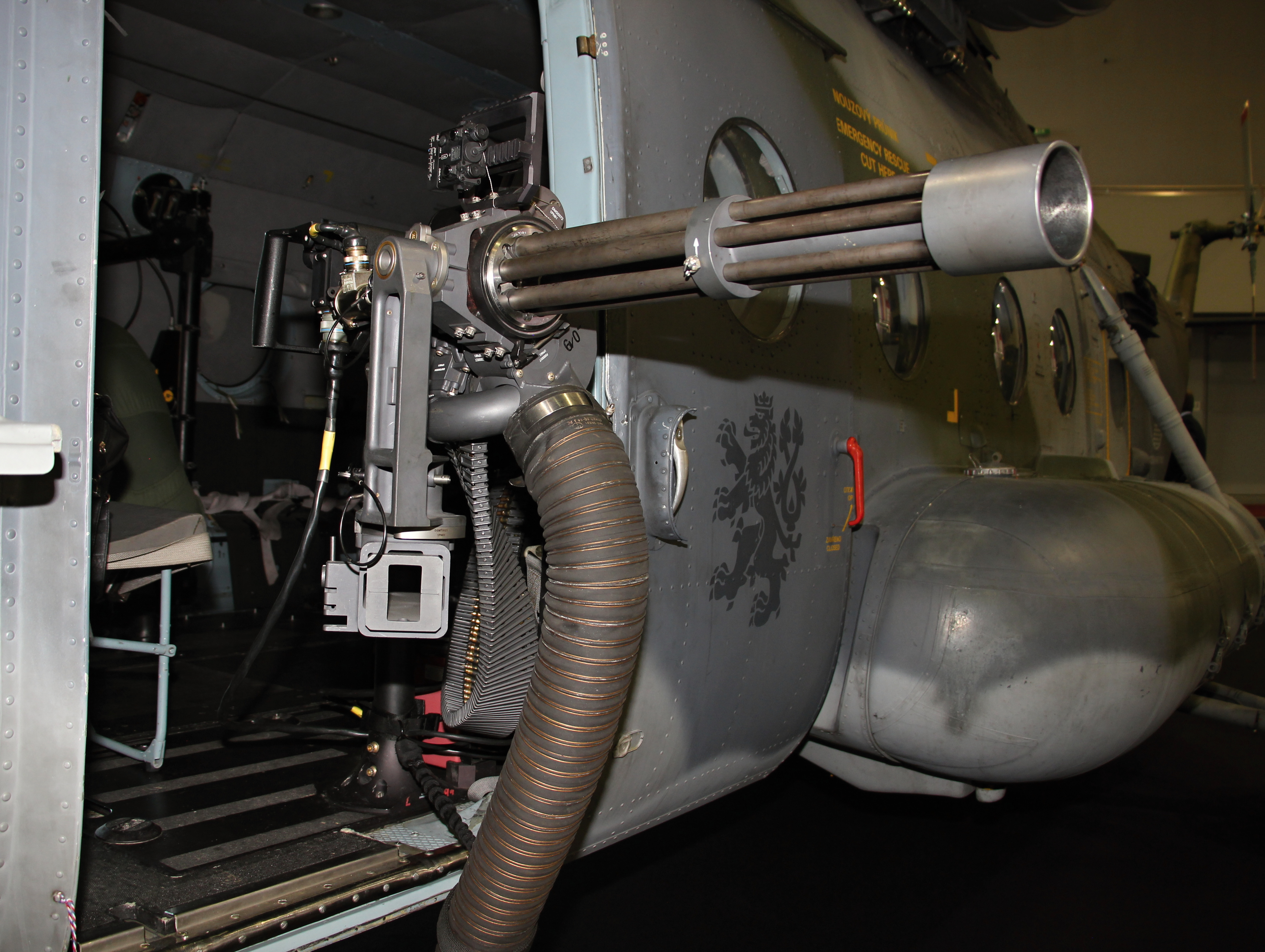 M-134D-H Minigun in the Mi-171Š sliding door. IDET 2017, Brno Exhibition Center, Czech Republic.